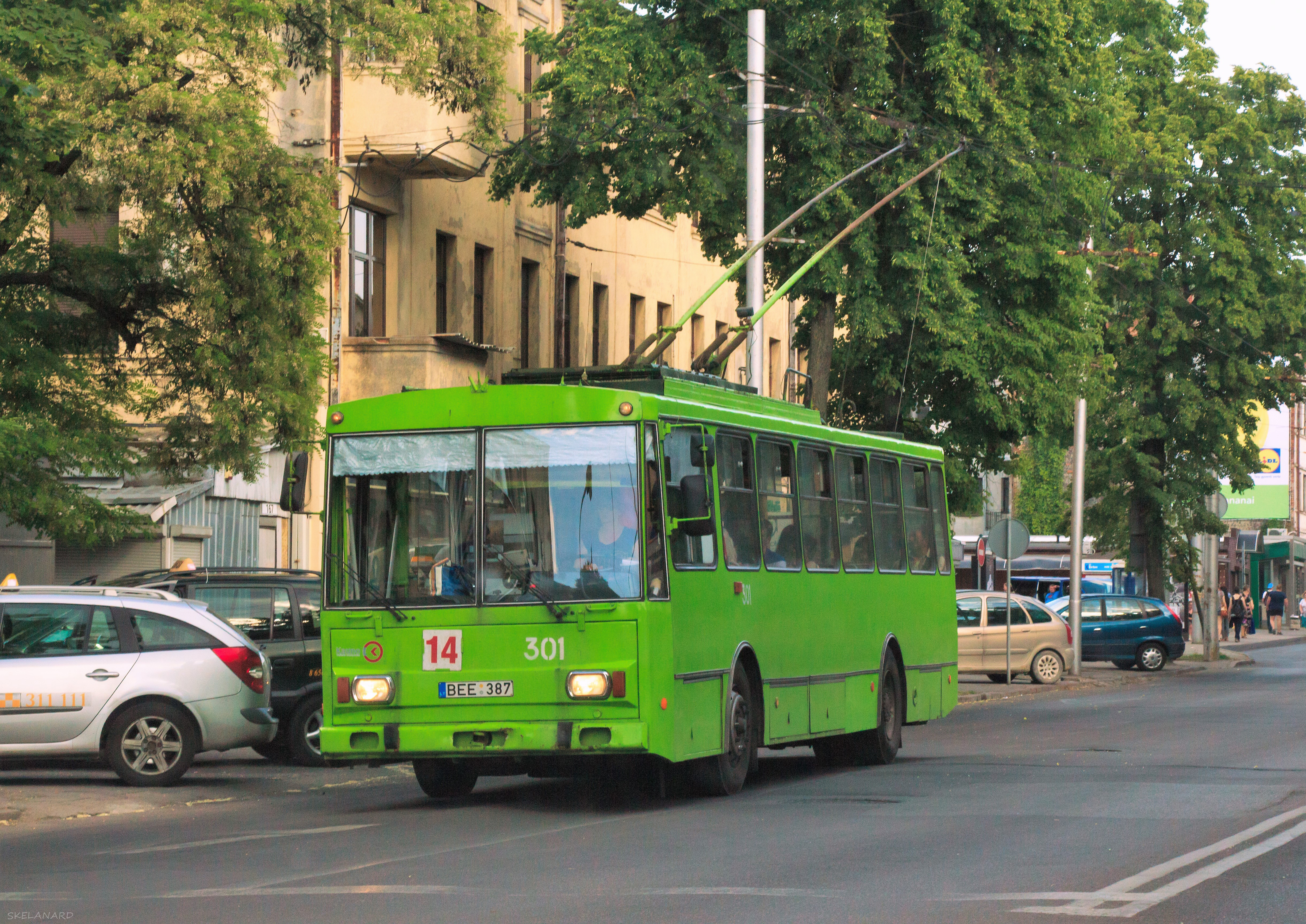 Škoda 14TrM trolleybus in Kaunas, Lithuania